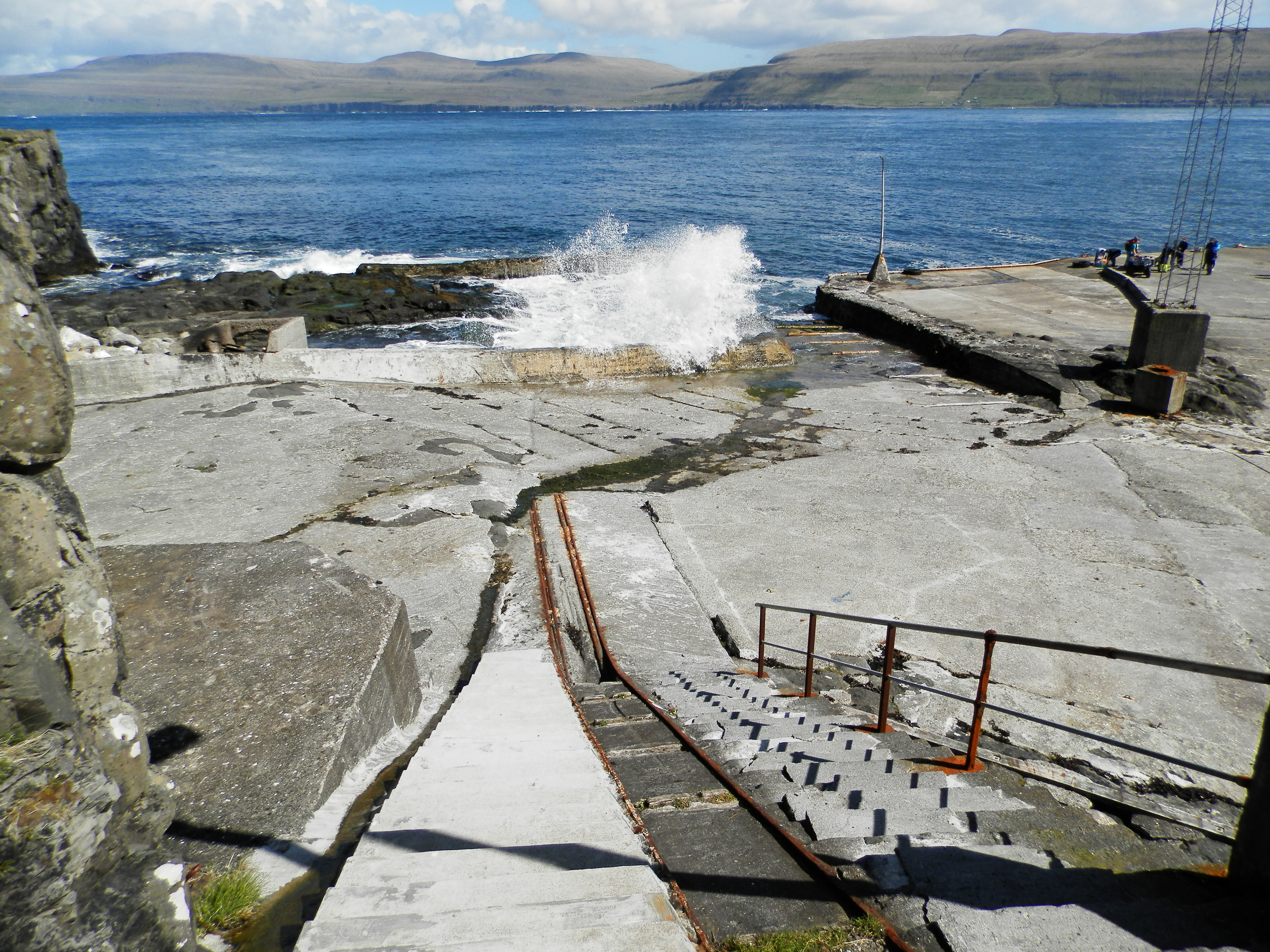 Skúvoy is a village on the island with the same name in the Faroe Islands. Some people call the island Skúgvi. The population as of 1 January 2013 was 36. This photo was taken on 1 June 2013.